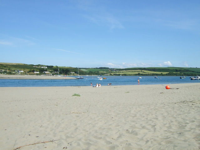 Poppit Sands The beach at Poppit Sands in mid summer. The short walk over the dunes was worth the effort!